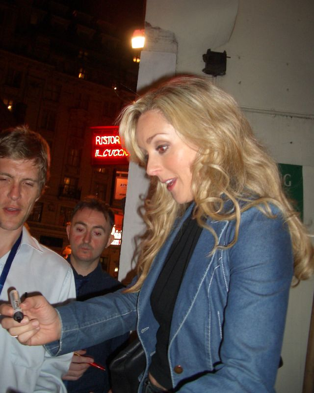 Jane Krakowski, of Ally McBeal fame. she played Miss Adelaide in the London production of Guys & Dolls, alongside Mr. Ewan McGregor (as Sky Masterson), who managed to speed away on his motorcycle minutes before i made it to the stage door... GOD DAMMIT!!!